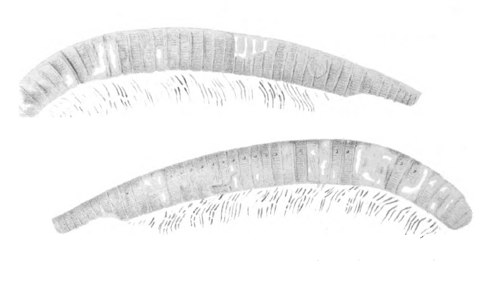 Detail of Xyloiulus (=Xylobius) mazonus fossil from Plate 37